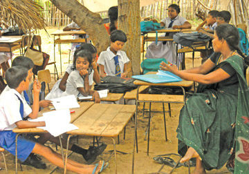 Sri Lanka University news "Lanka University News"